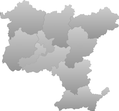 Map of Shaoguan in Guangdong province.